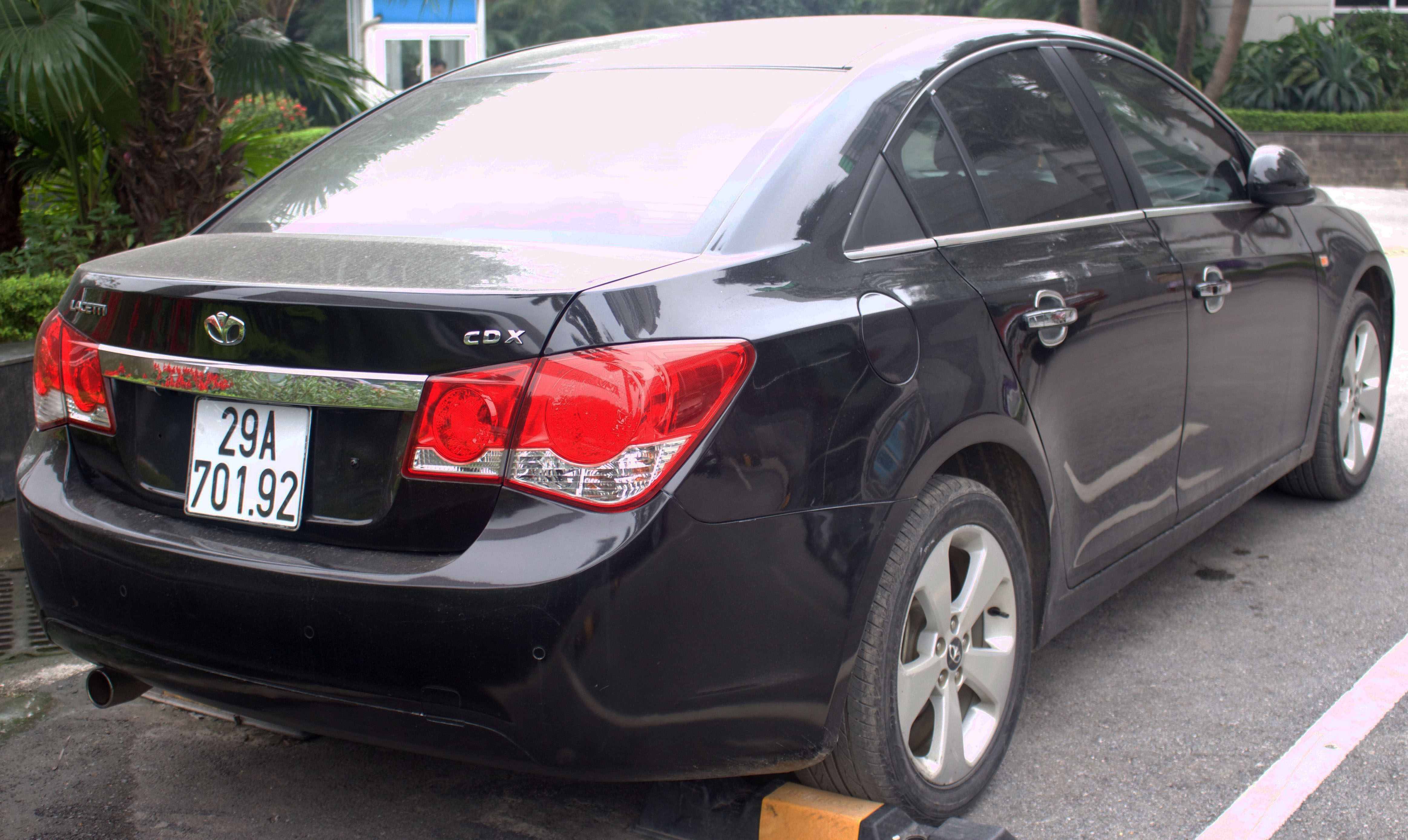 Daewoo Lacetti Premiere CDX sedan. Photographed in Hanoi